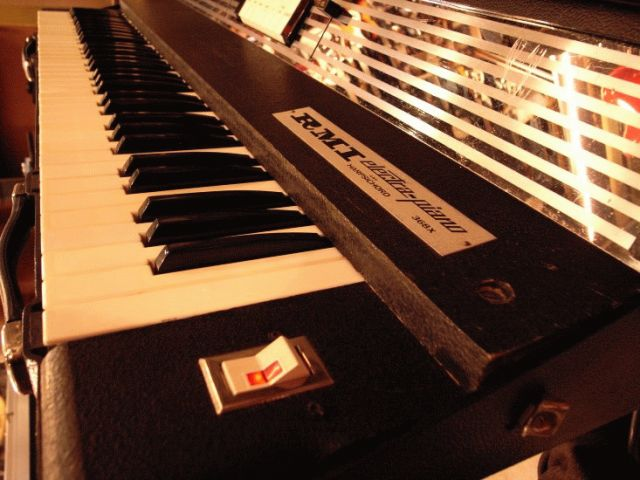 RMI 368X Electra-piano and Harpsichord